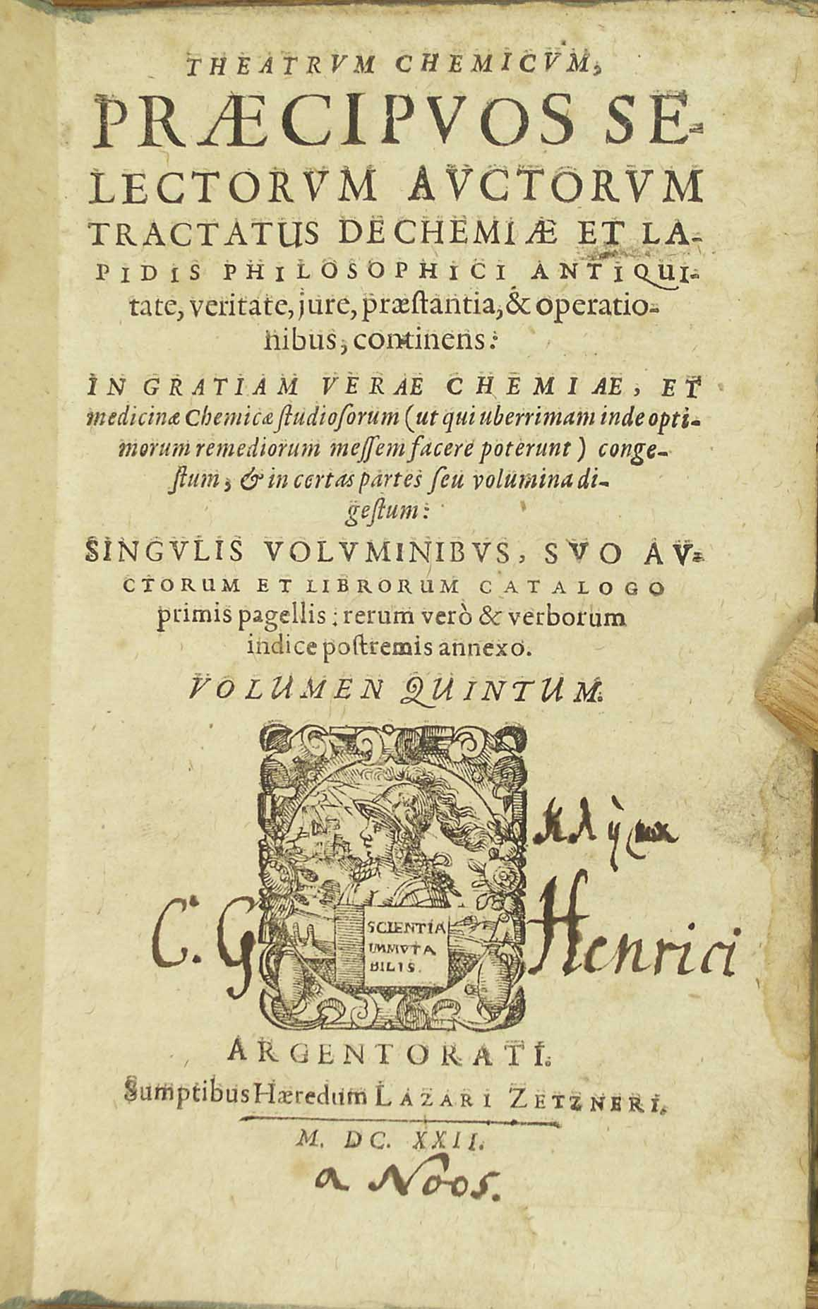 Page 1 of "Theatrum Chemicum", Volume V, printed 1622 in Strasburg, France by Lazarus Zetzner (Zetznerni, Zetznerus)